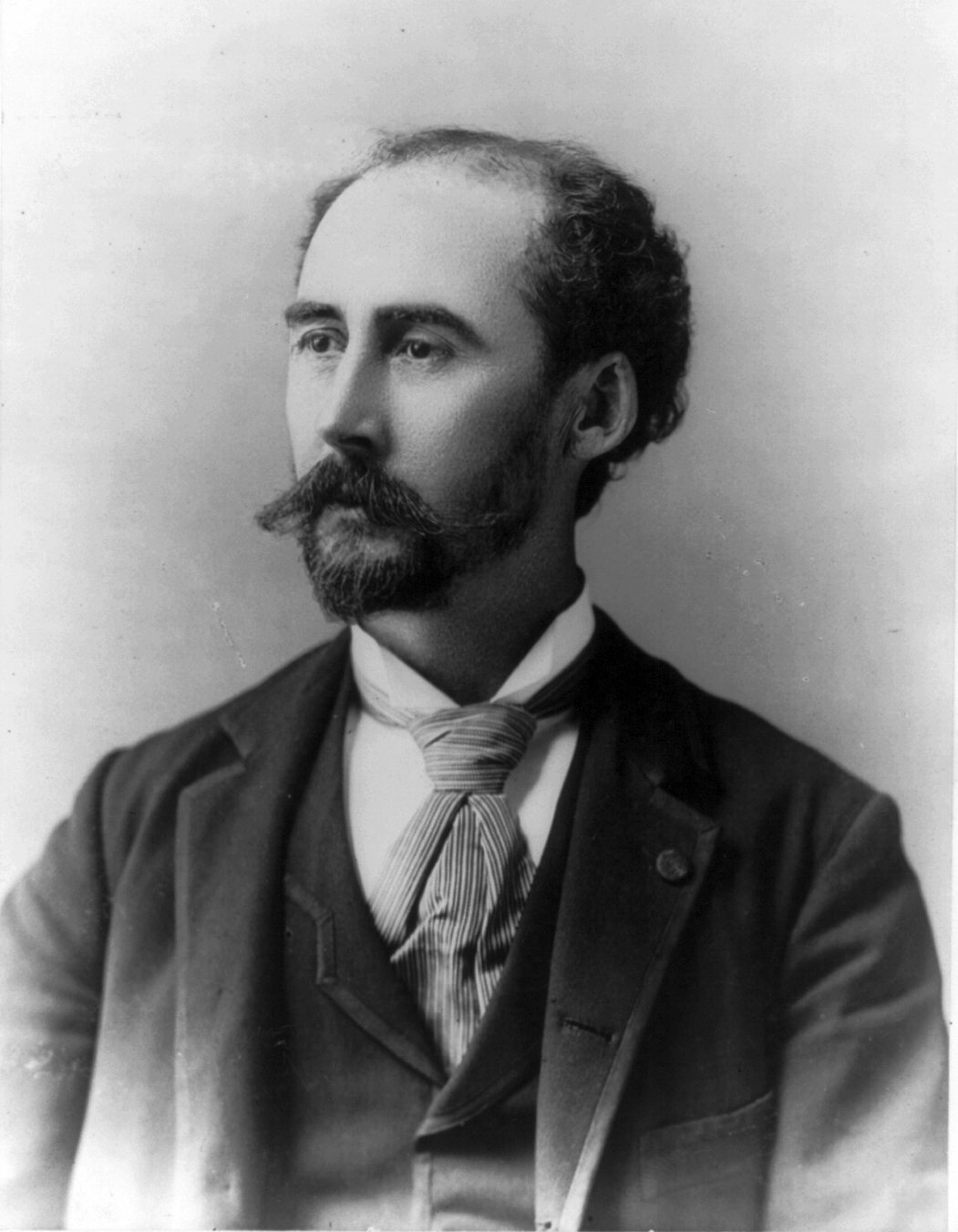 William Henry Holmes, head-and-shoulders portrait, facing left